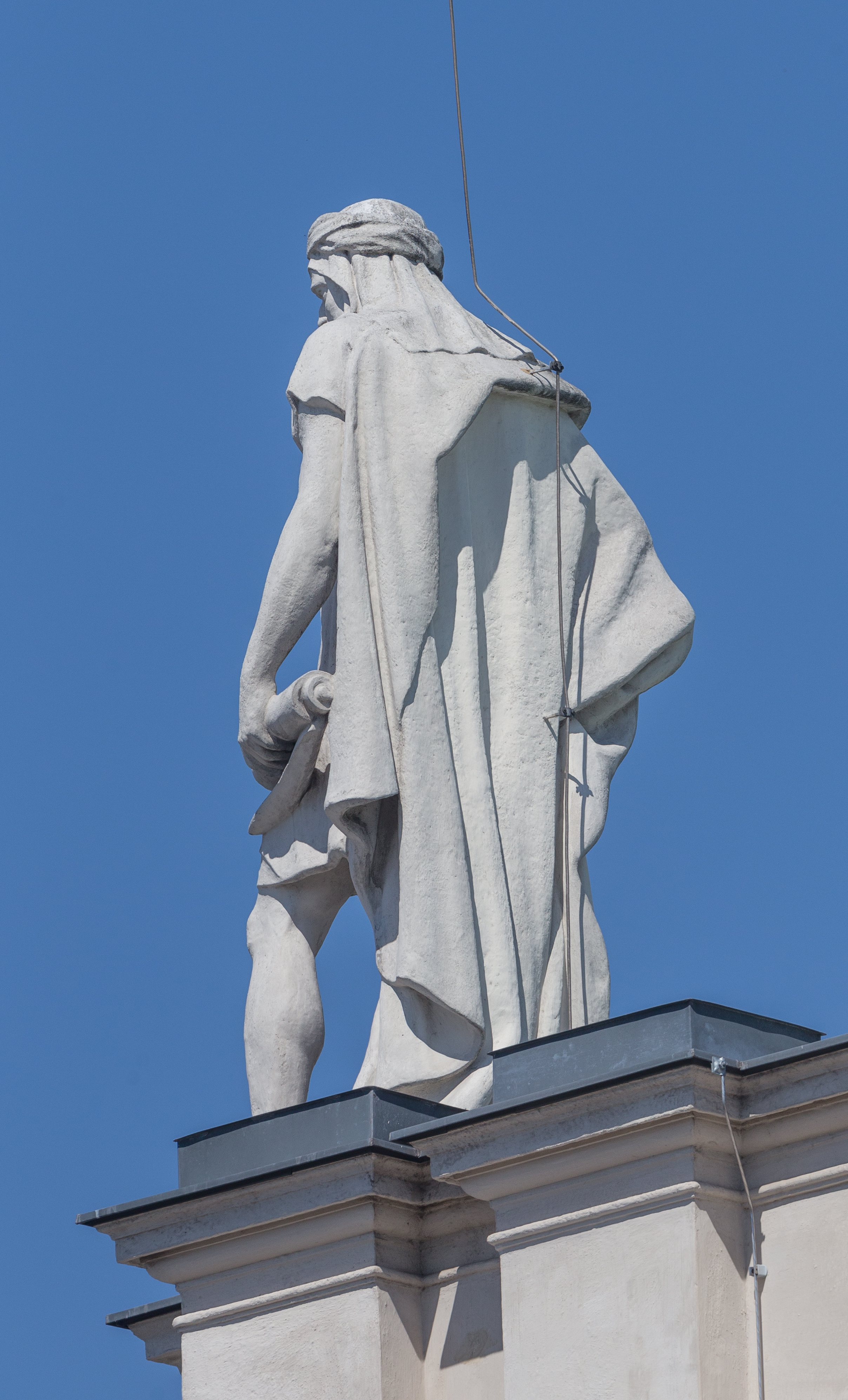 Roof figurer Al Masudi, Artist: Emmerich Alexius Swoboda, Naturhistorisches Museum, Vienna, Bellariastraße,Risalit at the right side